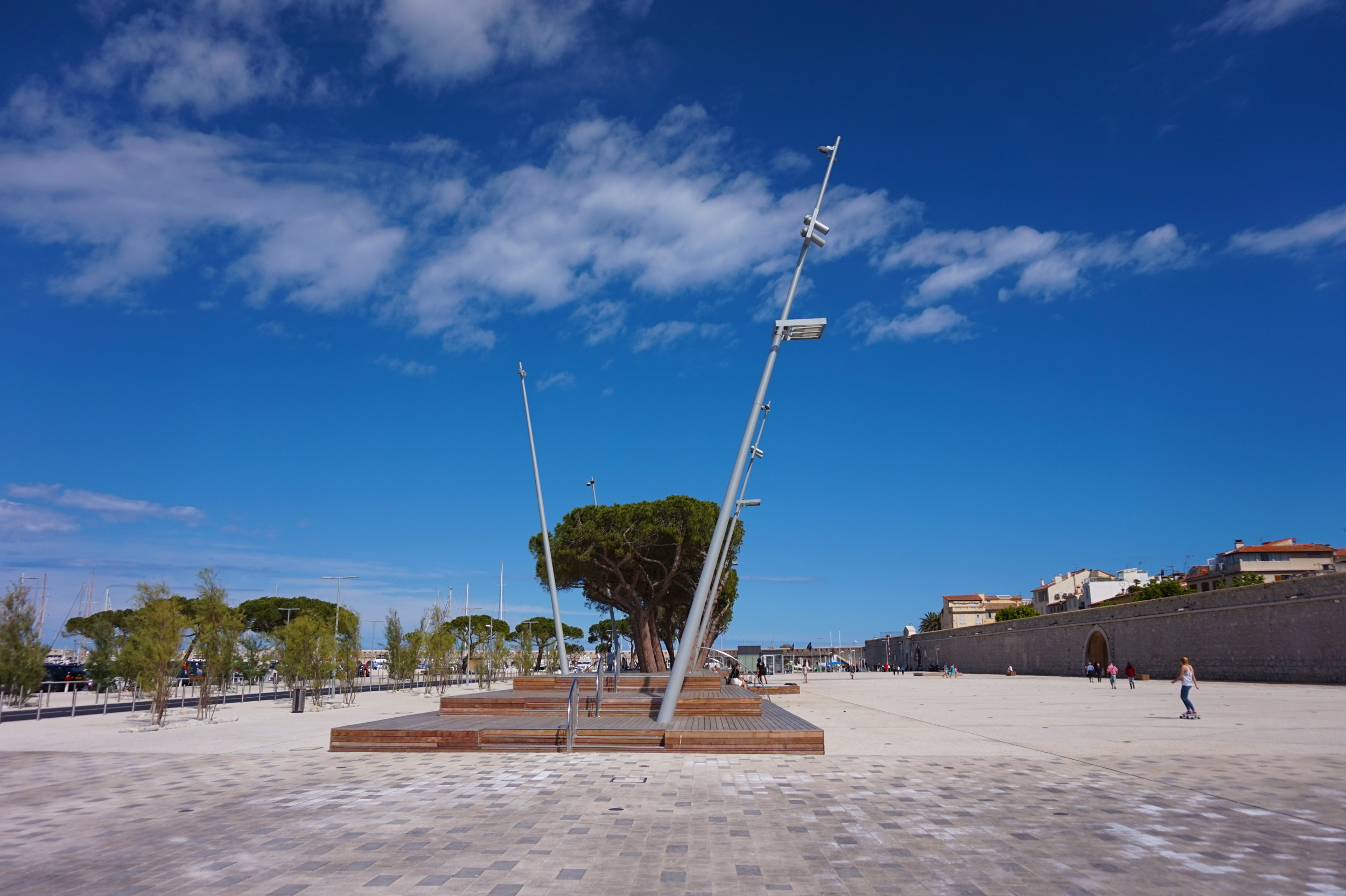 View in Antibes.This photograph was taken with a Sony ILCE-5000